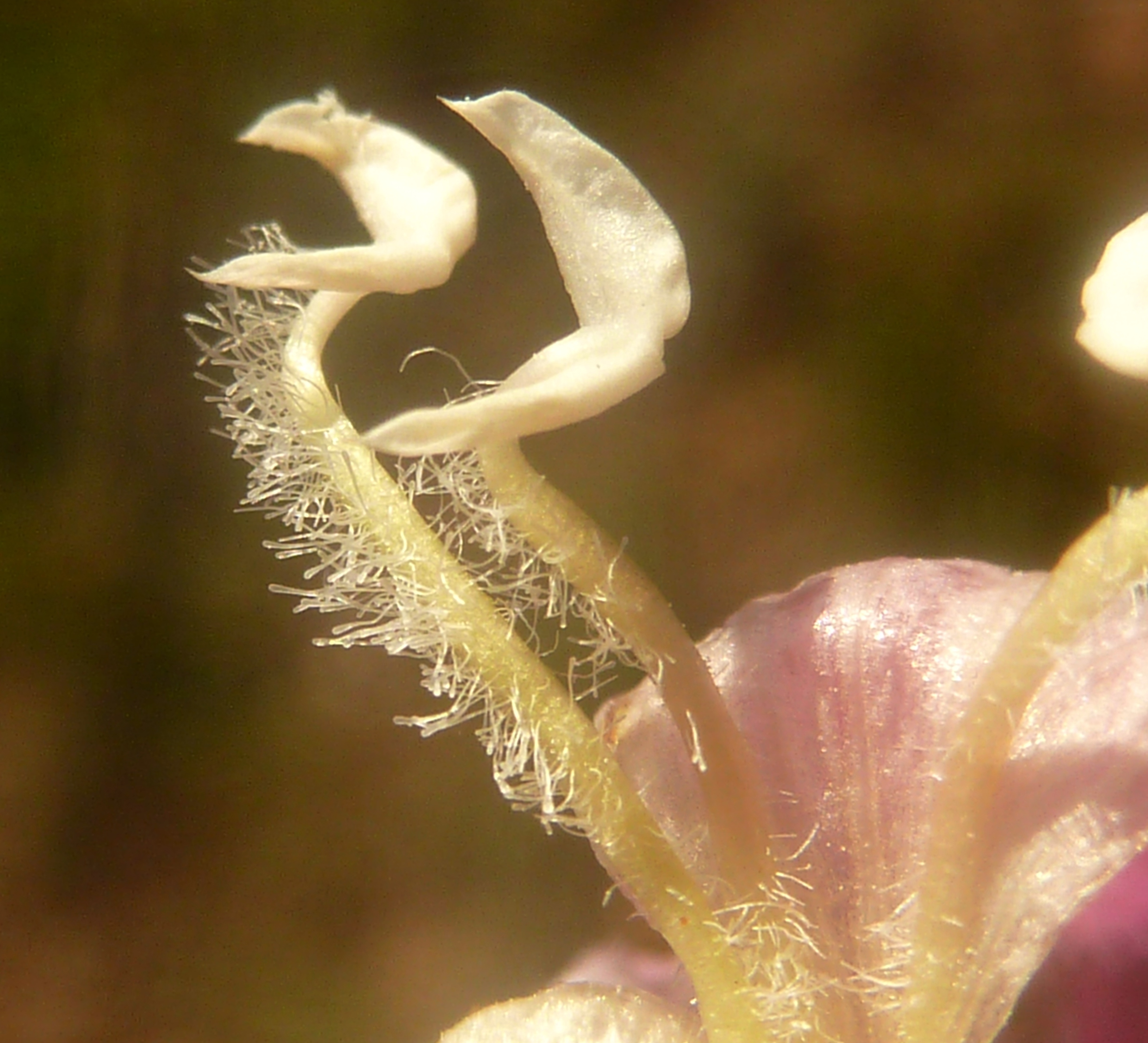 Didynamous stamens of Wild penstemon with divergent, oblong and curved thecae